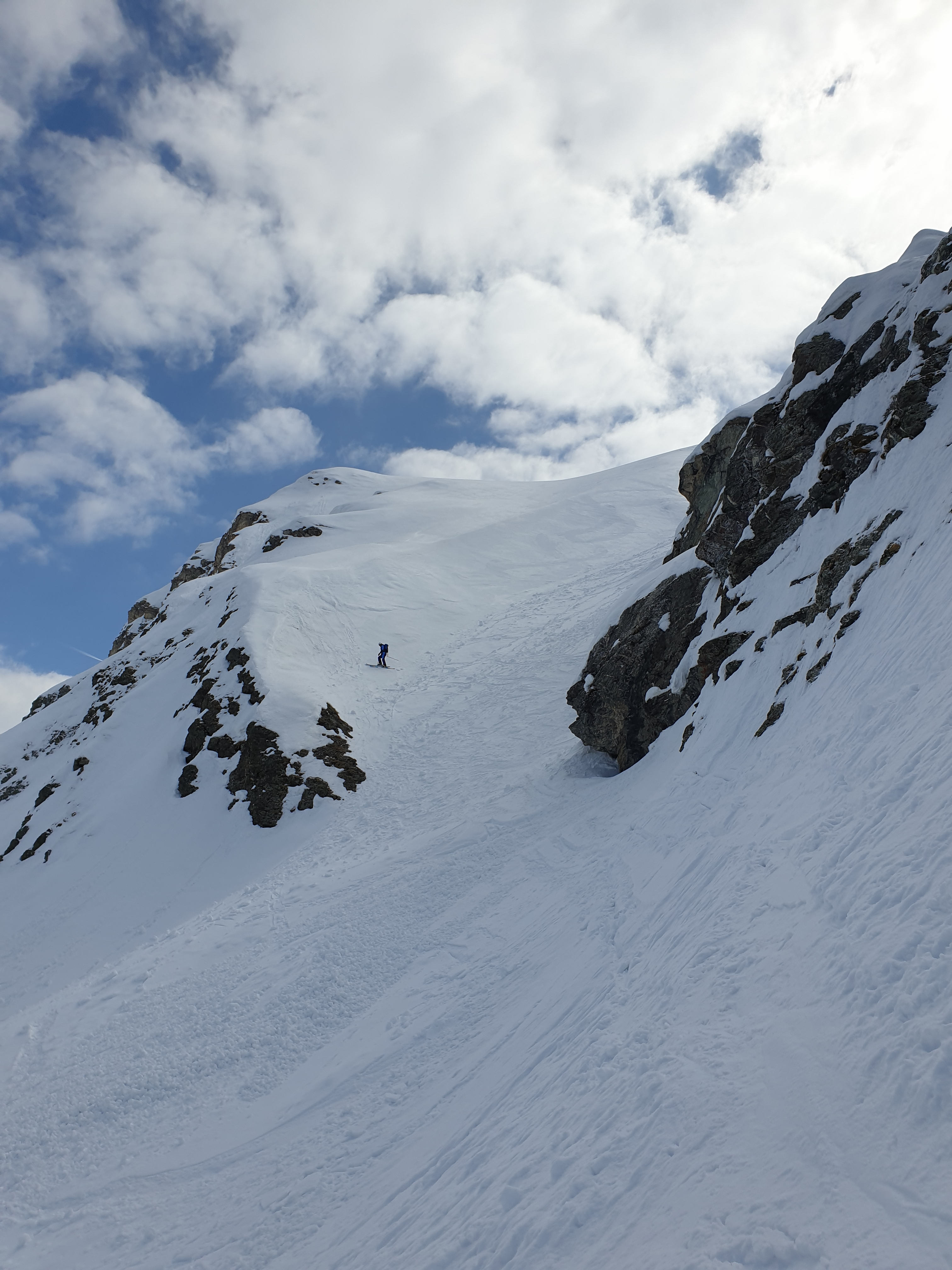 Roccabella north face (Surses, Grison, Switzerland)